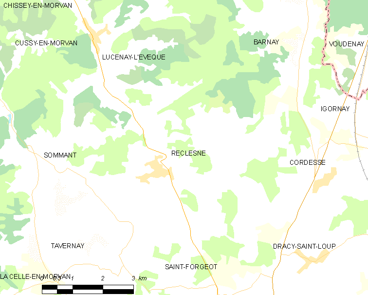 Map of French municipality